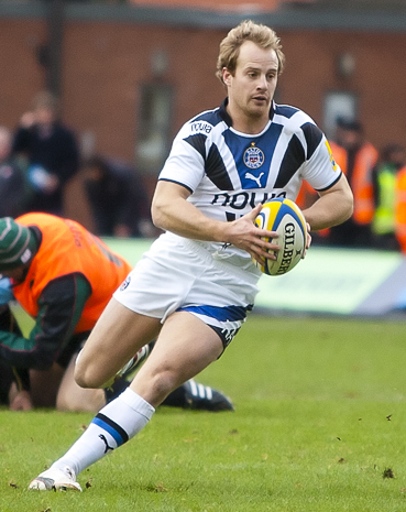 Nick Abendanon of Bath swerves around Leicester's Anthony Allen. Leicester Tigers vs Bath, Aviva Premiership, Welford Road, Saturday 1st December 2012